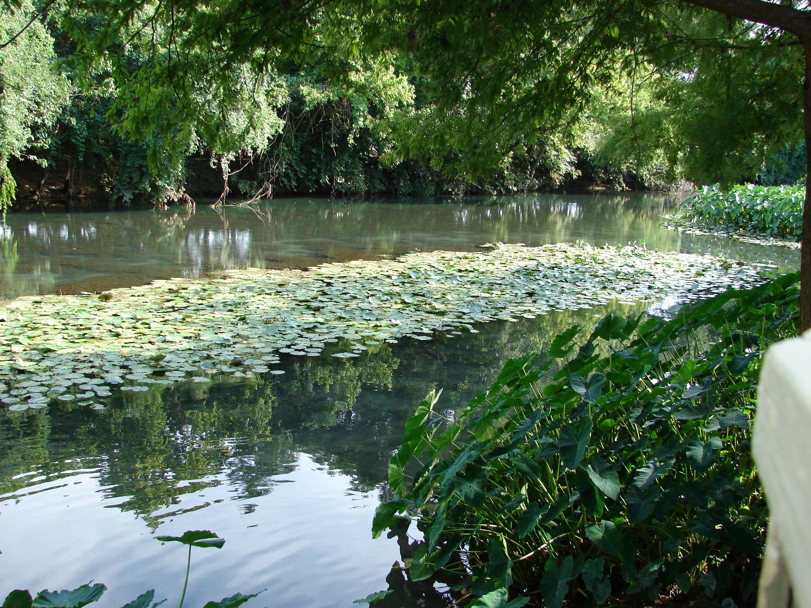 The Comal River near Schlitterbahn in New Braunfels, Texas. Photo taken by me, July 2006.